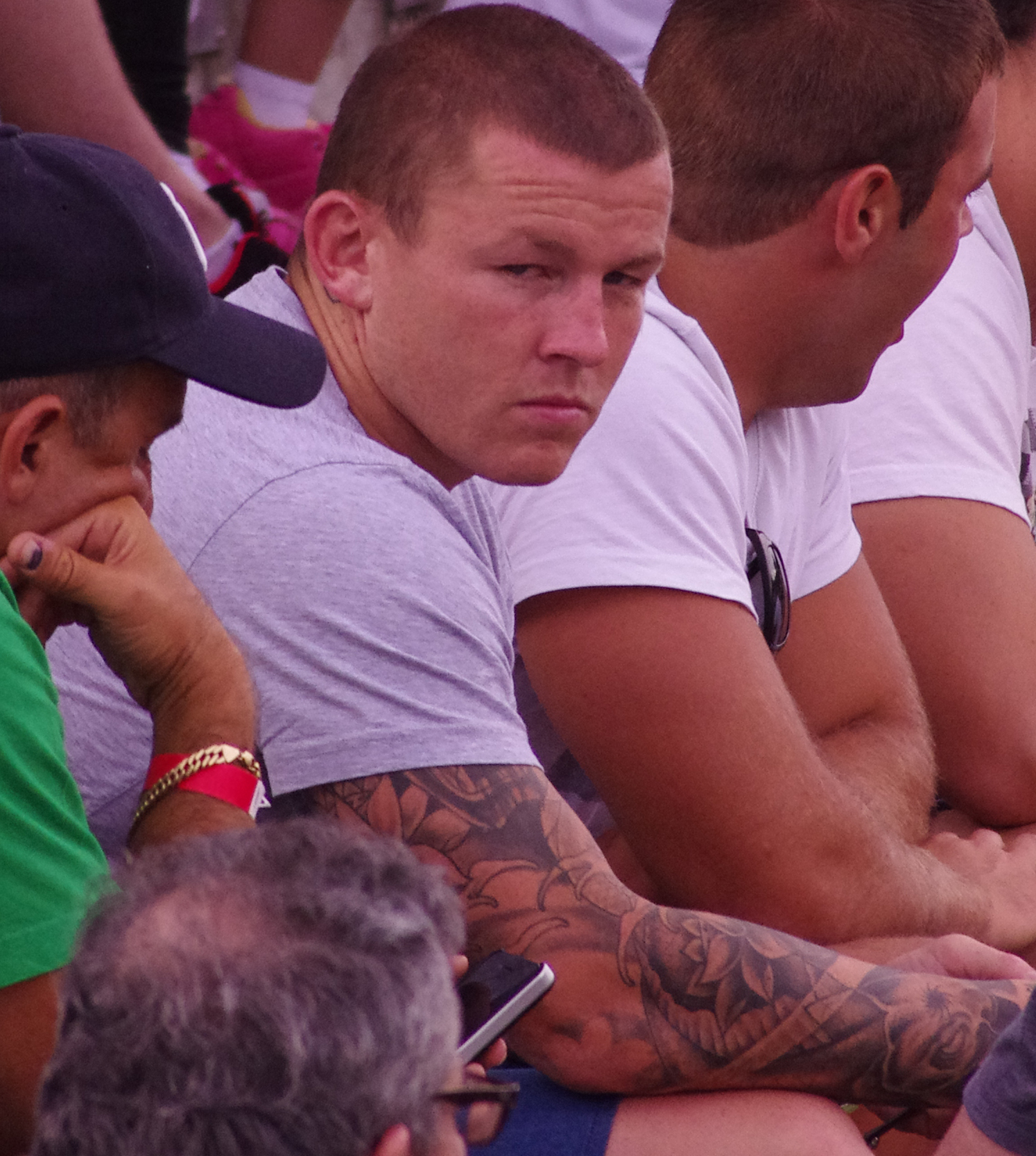 Todd Carney